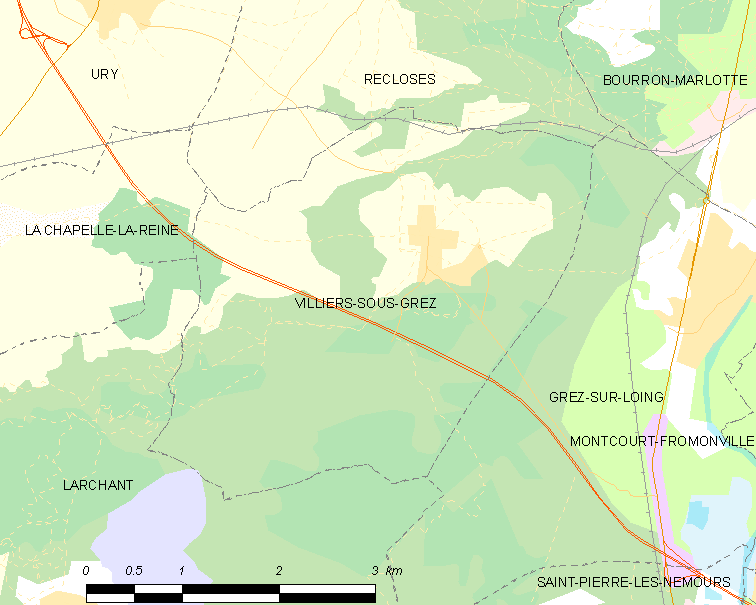 Map of French municipality Villiers-sous-Grez